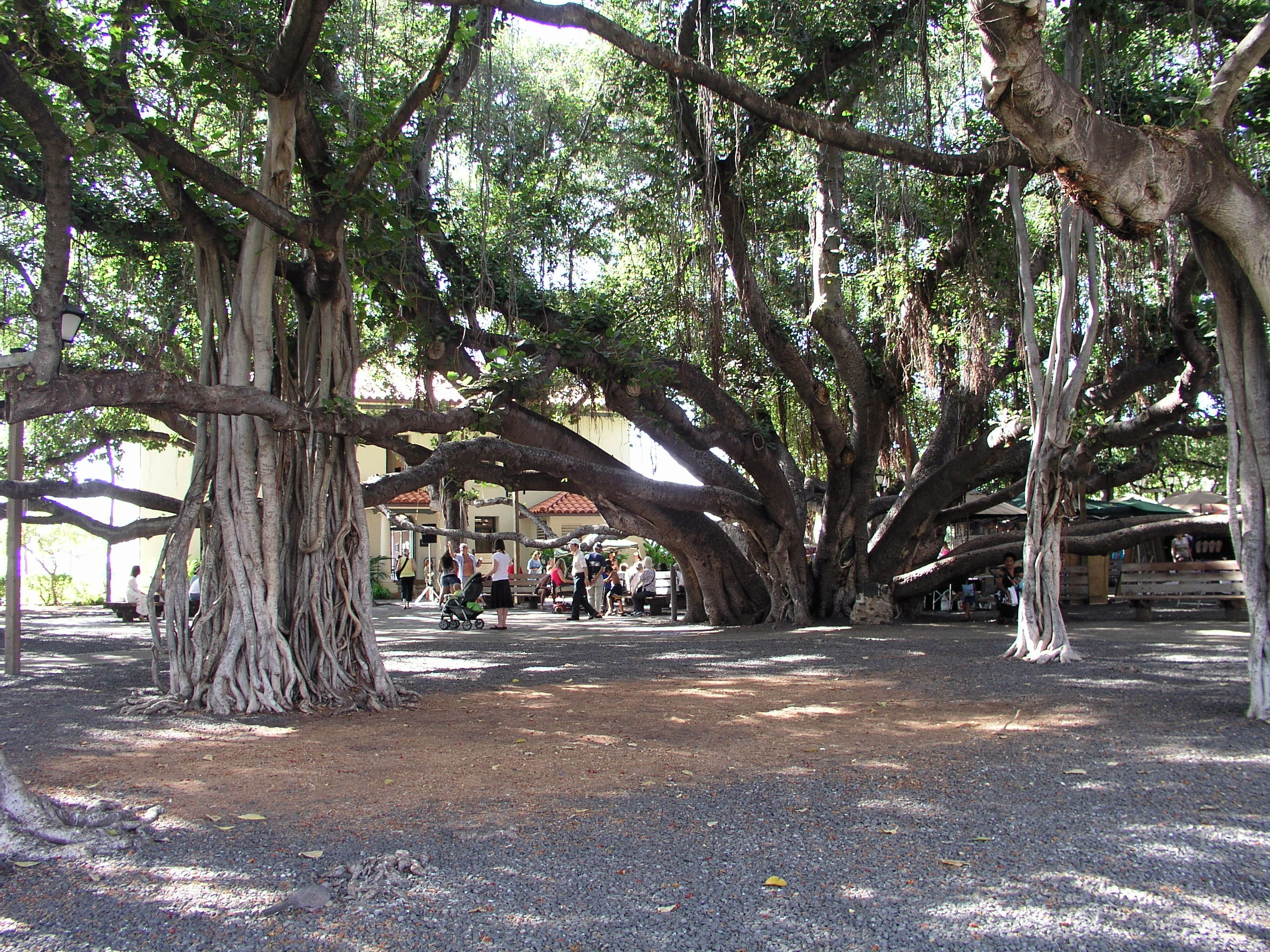 A banyan tree (Ficus benghalensis ) in Banyan Tree Park - Lahaina, Hawaii.